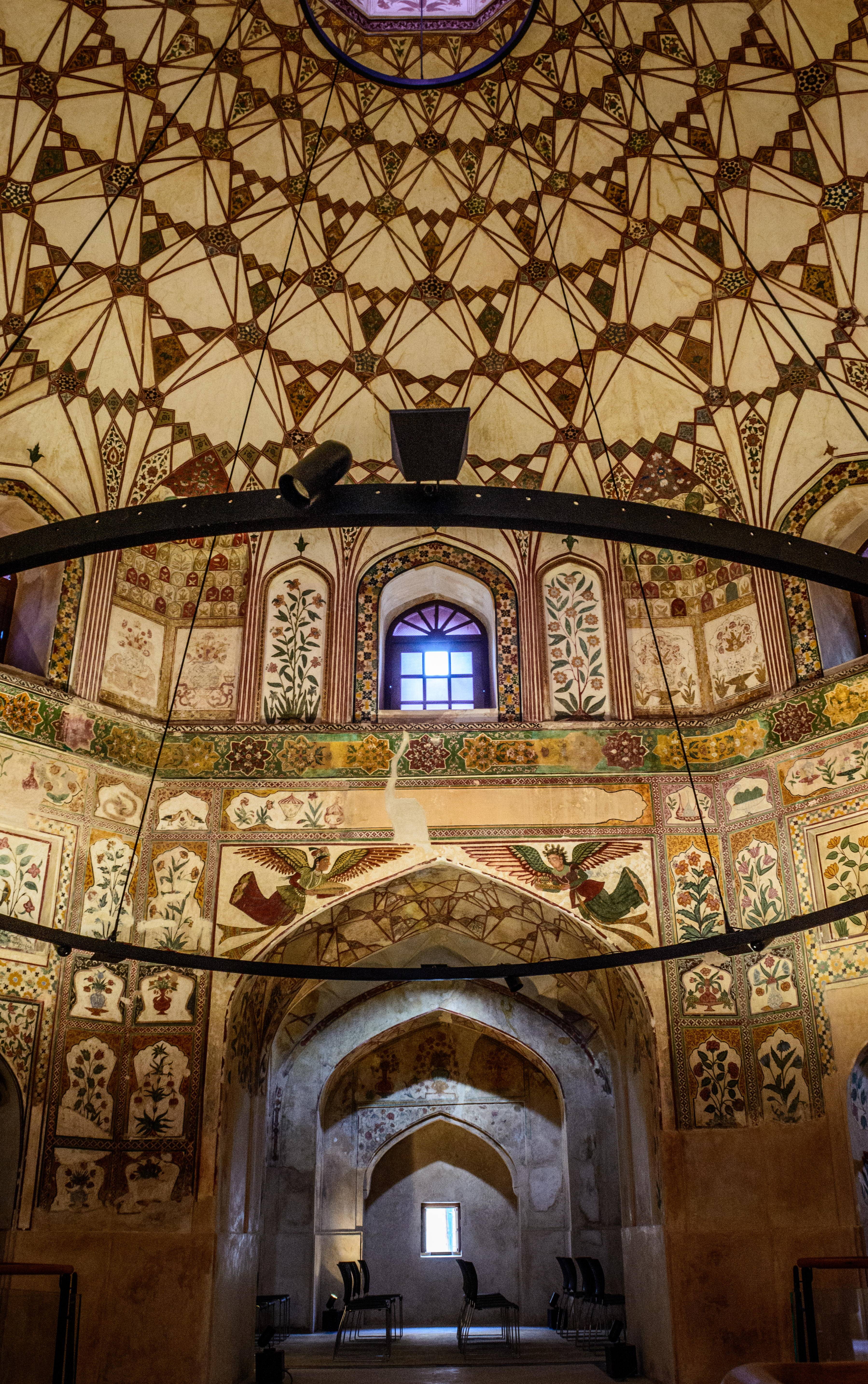 Wazir Khan's hammams This is a photo of a monument in Pakistan identified as the PB-99